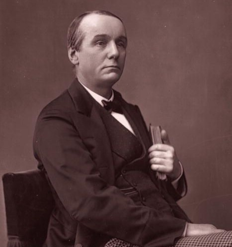 William Edward Baxter (1825 – 10 August 1890), British politician and traveller.